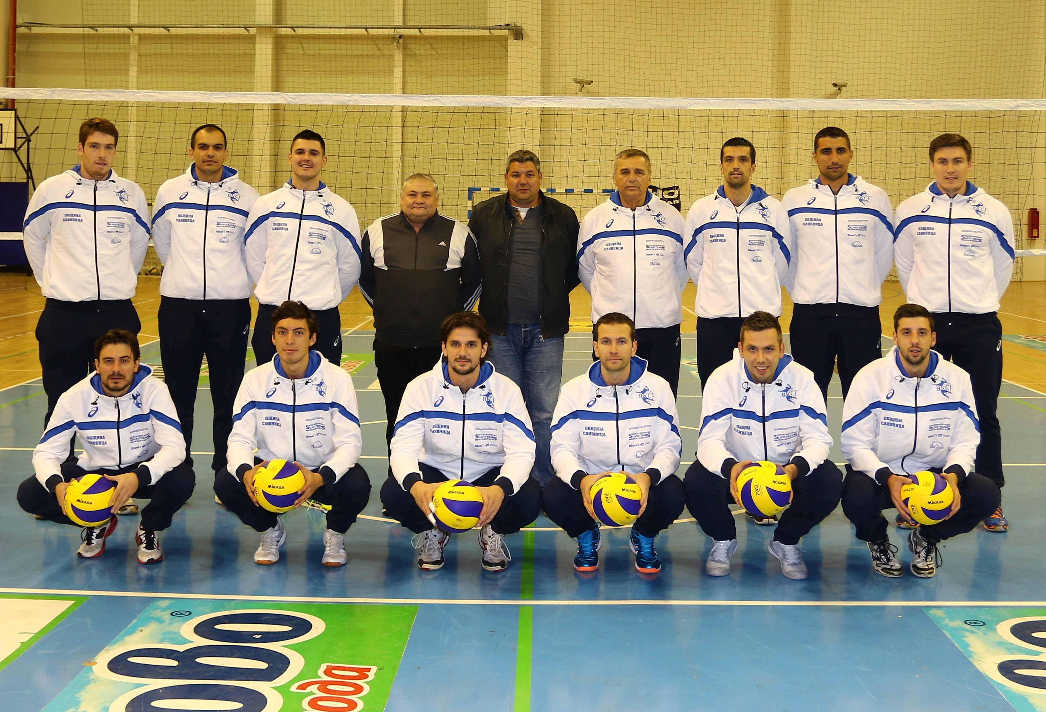 Volleyball Club Slivnishki Geroi, Slivnitsa.